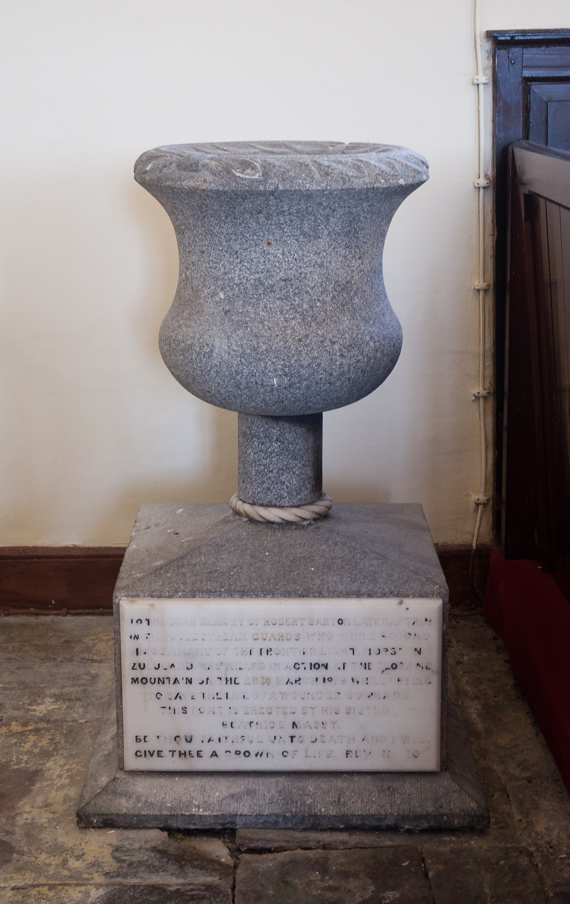 Baptismal font. Inscription: TO THE DEAR MEMORY OF ROBERT BARTON LATE CAPTAIN IN THE COLDSTREAM GUARDS WHO WHILE SECOND IN COMMAND OF THE FRONTIER LIGHT HORSE IN ZULULAND WAS KILLED IN ACTION AT THE ZLOBANE MOUNTAIN ON THE 28TH MARCH 1879 WHILE TRYING TO SAVE THE LIFE OF A WOUNDED COMRADE. THIS FONT IS ERECTED BY HIS SISTER BEATRICE MASSY. BE THOU FAITHFUL UNTO DEATH AND I WILL GIVE THEE A CROWN OF LIFE. REV II 10